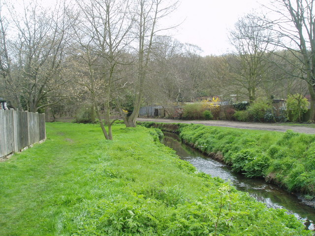 River Shuttle, Bexley Wood, Kent There seems to be a tradition in West Kent of dignifying even minor streams with a 'River' title - cf. the River Quaggy in Lewisham. This one, the Shuttle, flows into the Cray two miles further east from here, (we are looking east), and thence into the Thames.